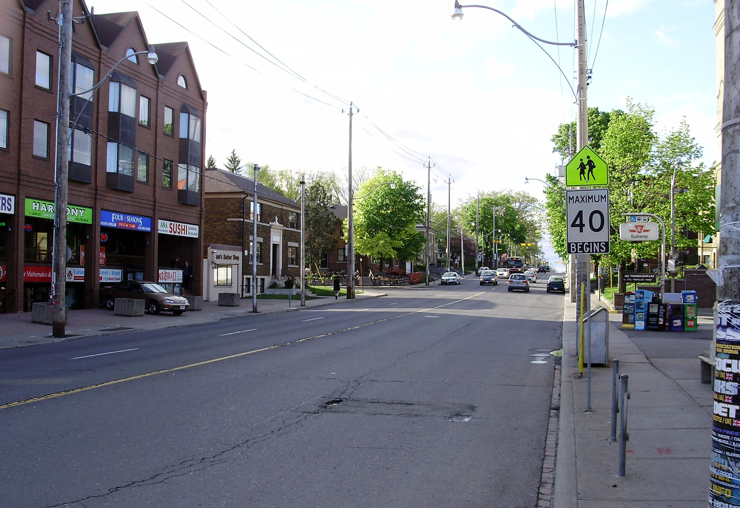 A view north from the foot of Jane Street at its intersection with Bloor Street West in Toronto, Canada.